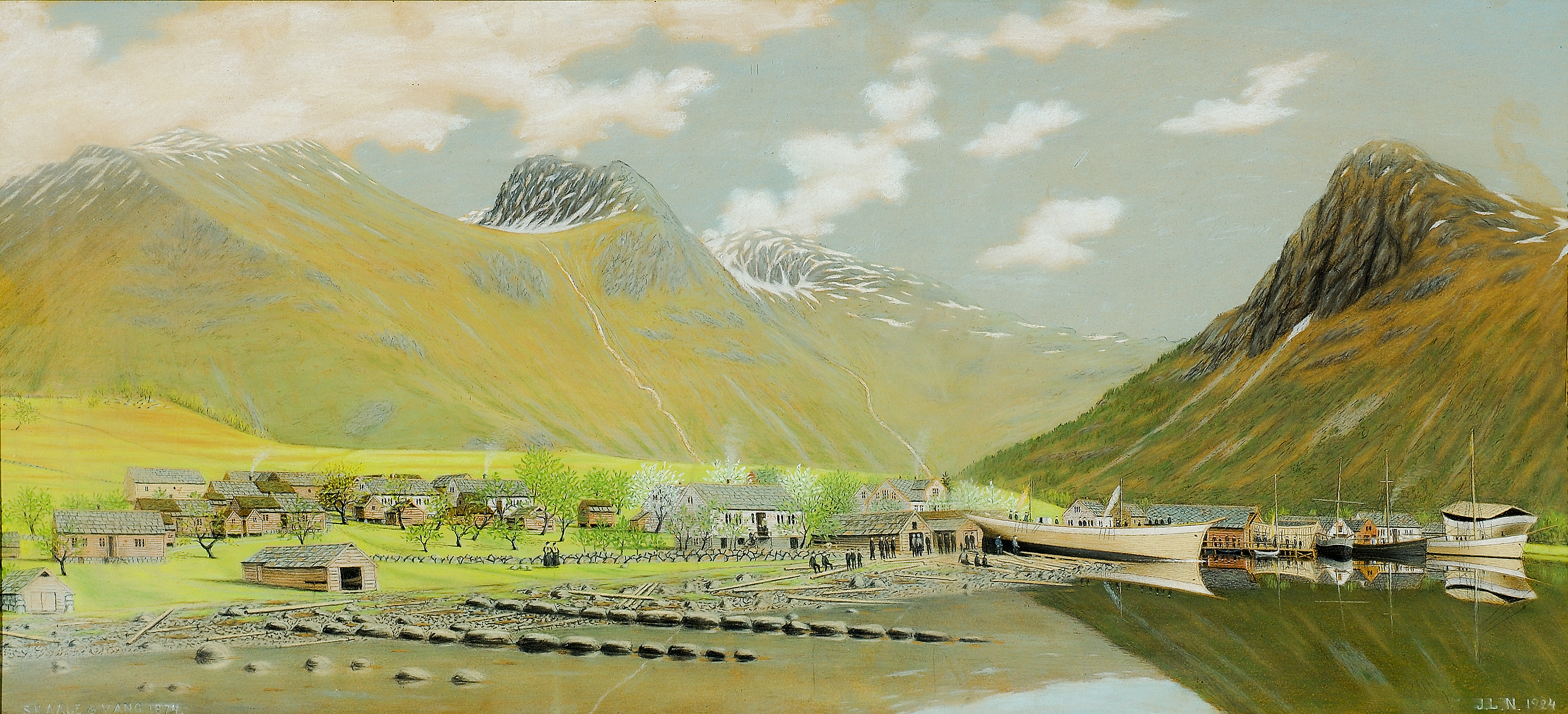 Johs. L. Ness si teikning frå 1924 viser Rosendal sentrum før utskiftinga. Nede til venstre har kunstnaren skrive «Skaale & Vang 1874».